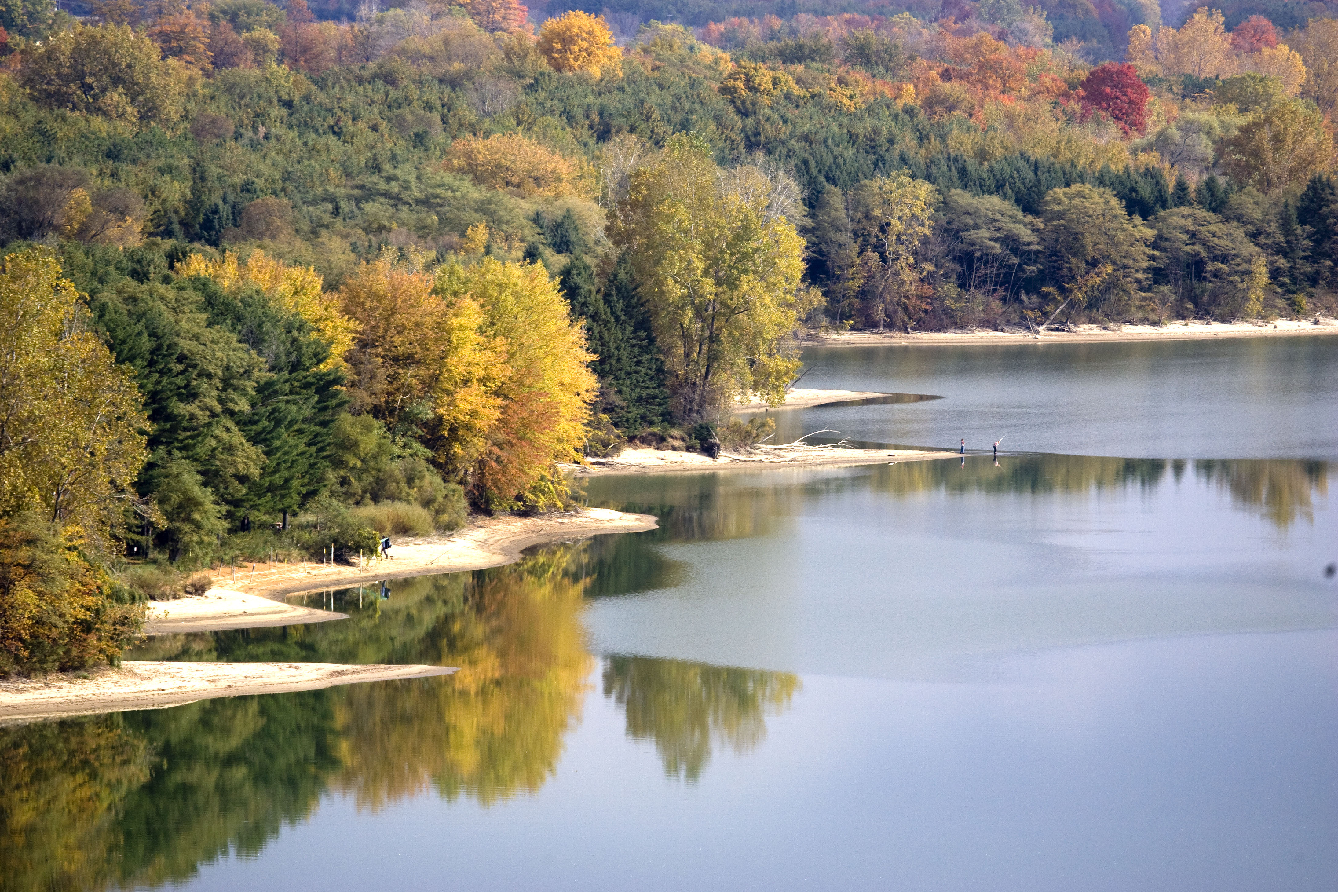 Woodstock, with a lake in the middle of the city.